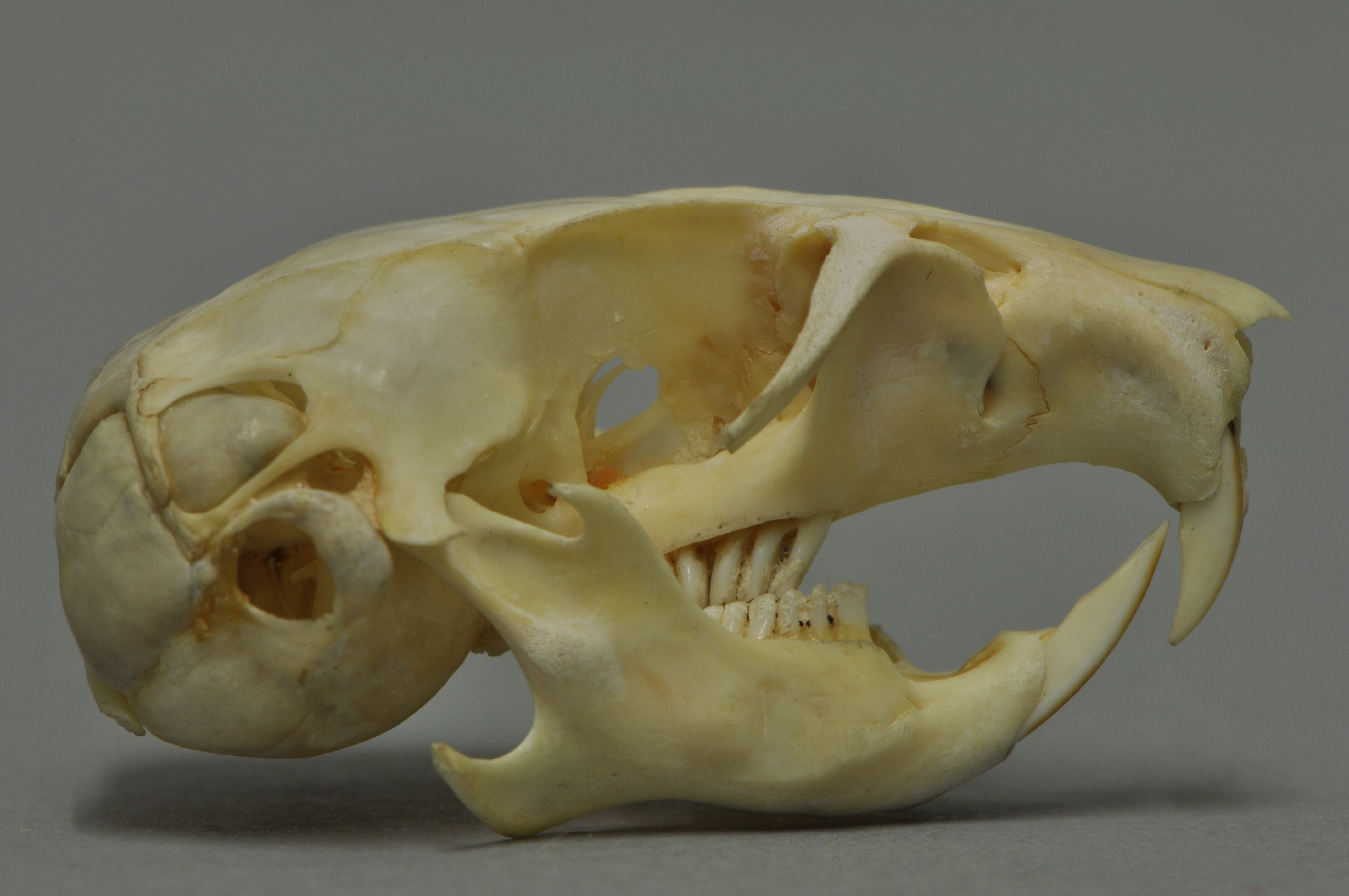 Sand rat Psammomys obesus, skull, Coll. Museum Wiesbaden